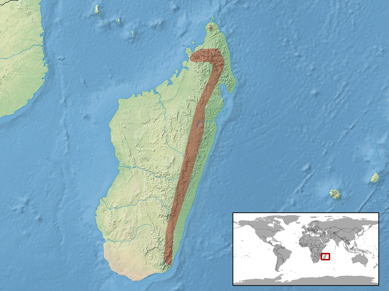 geographic distribution of Uroplatus sikorae (Native: Madagascar)